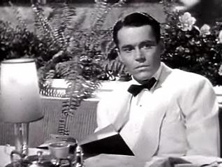 Cropped screenshot of Henry Fonda from the film The Lady Eve